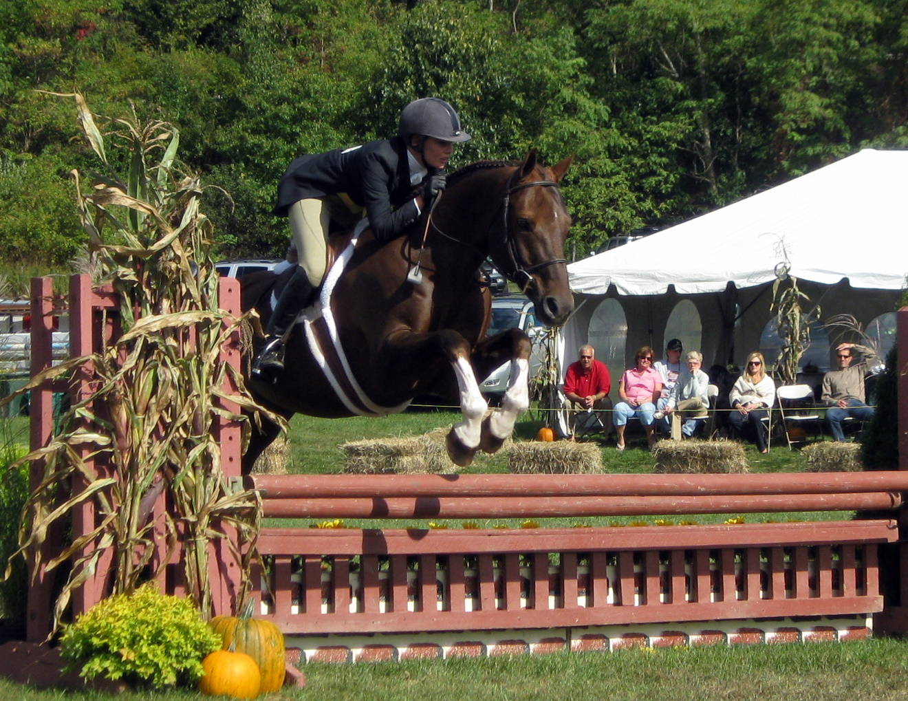 Liver chestnut gelding marked on the left hindquarter (not visible here) with the Saxon-Anhalt (Sachsen-Anhaltiner) brand. The horse is competing in a hunter competition.